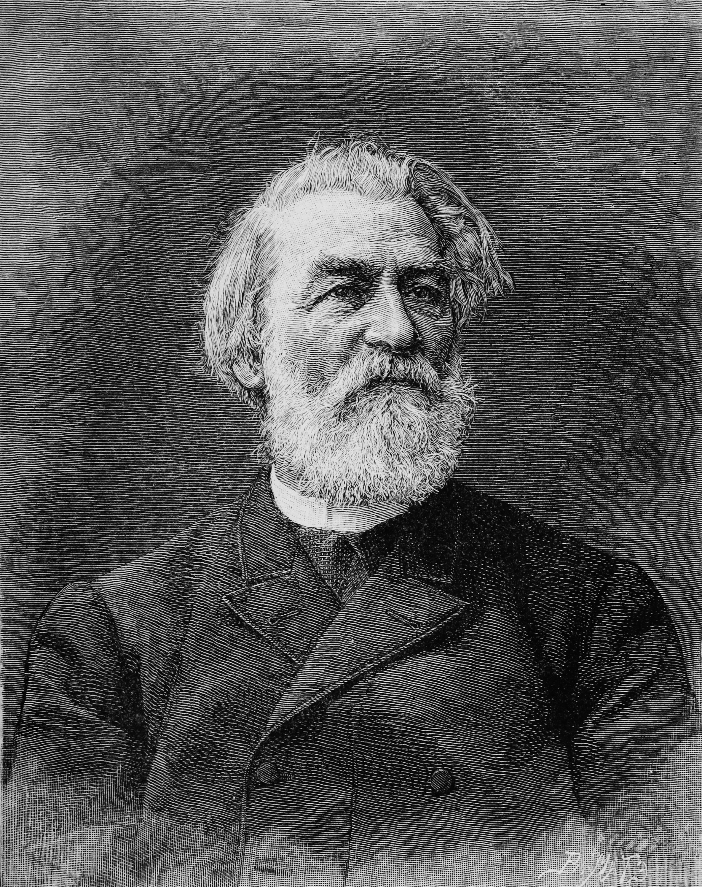 Dmitry Vasilyevich Grigorovich